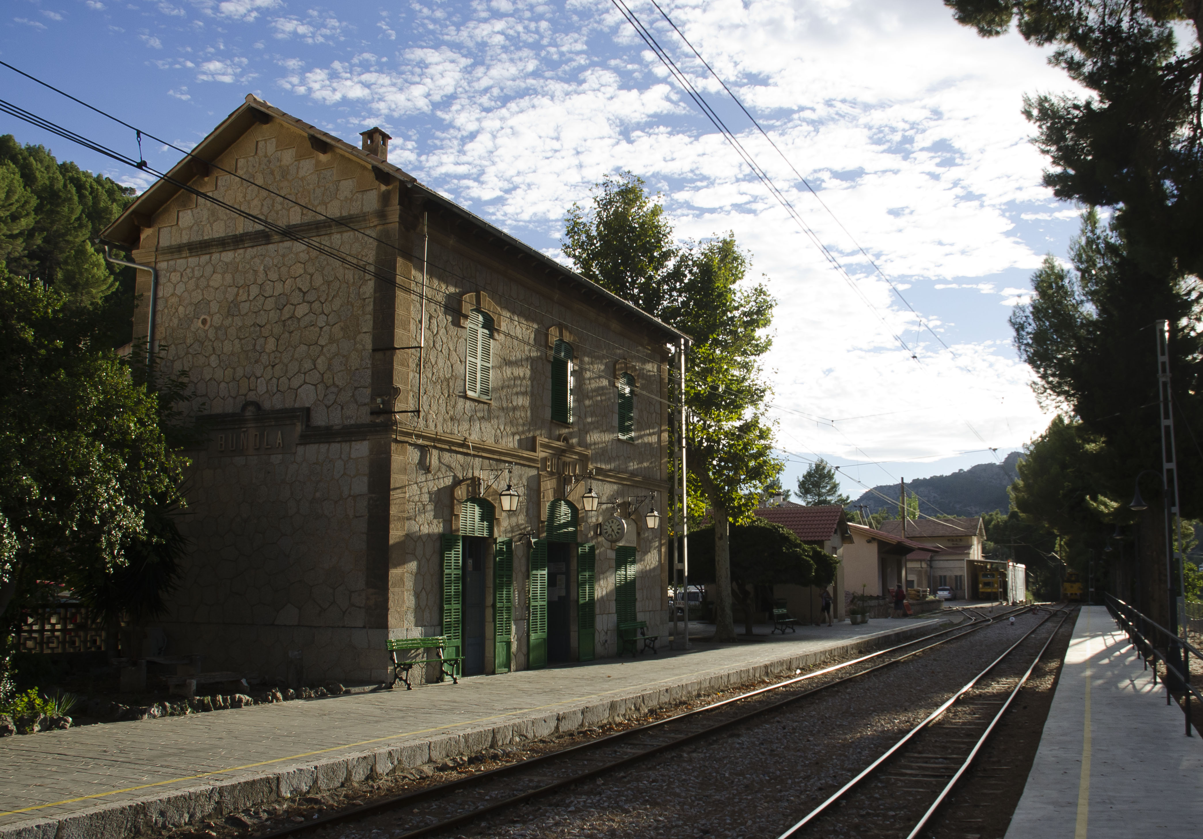 Bunyola train station, Mallorca